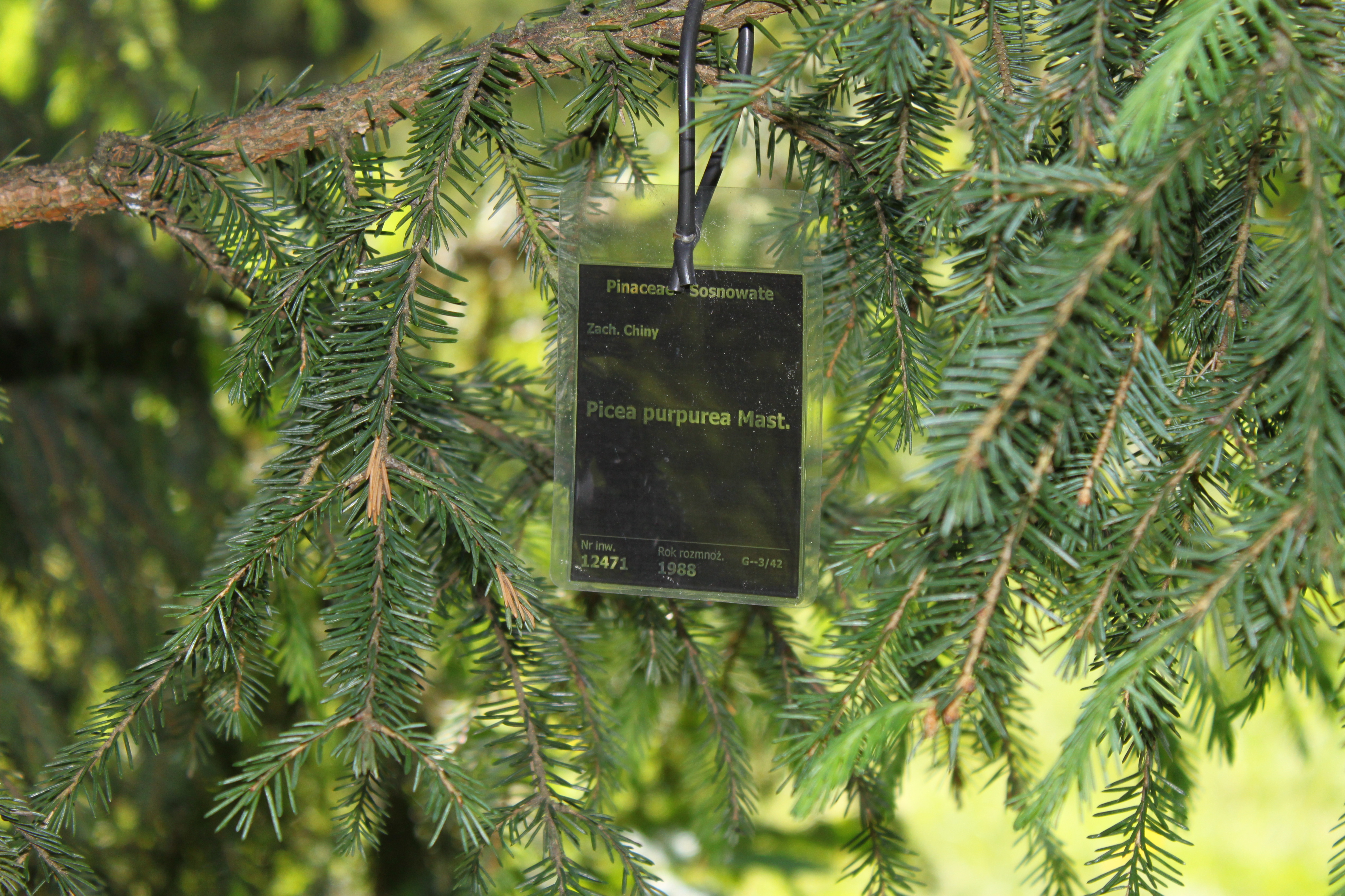 Picea purpurea in Rogów Arboretum, Poland